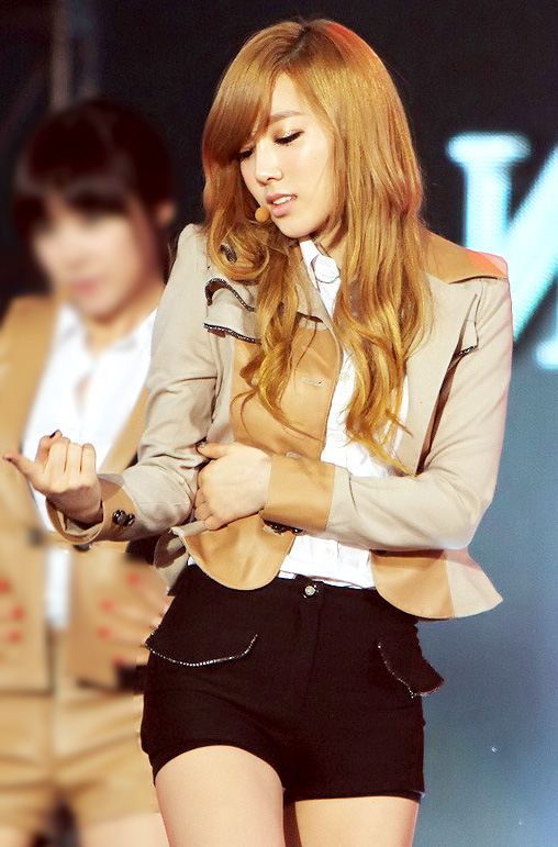 Taeyeon performing at Nongshim Love Sharing Concert on November 6, 2011